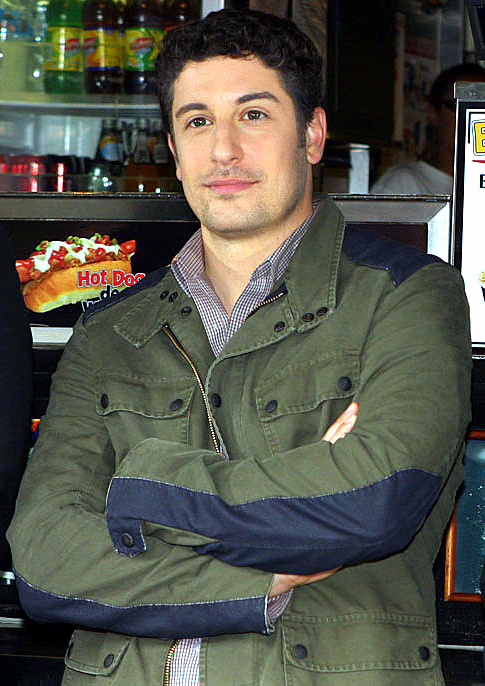 Jason Biggs at the American Pie Reunion, Harry's Cafe de Wheels Sydney 2012.